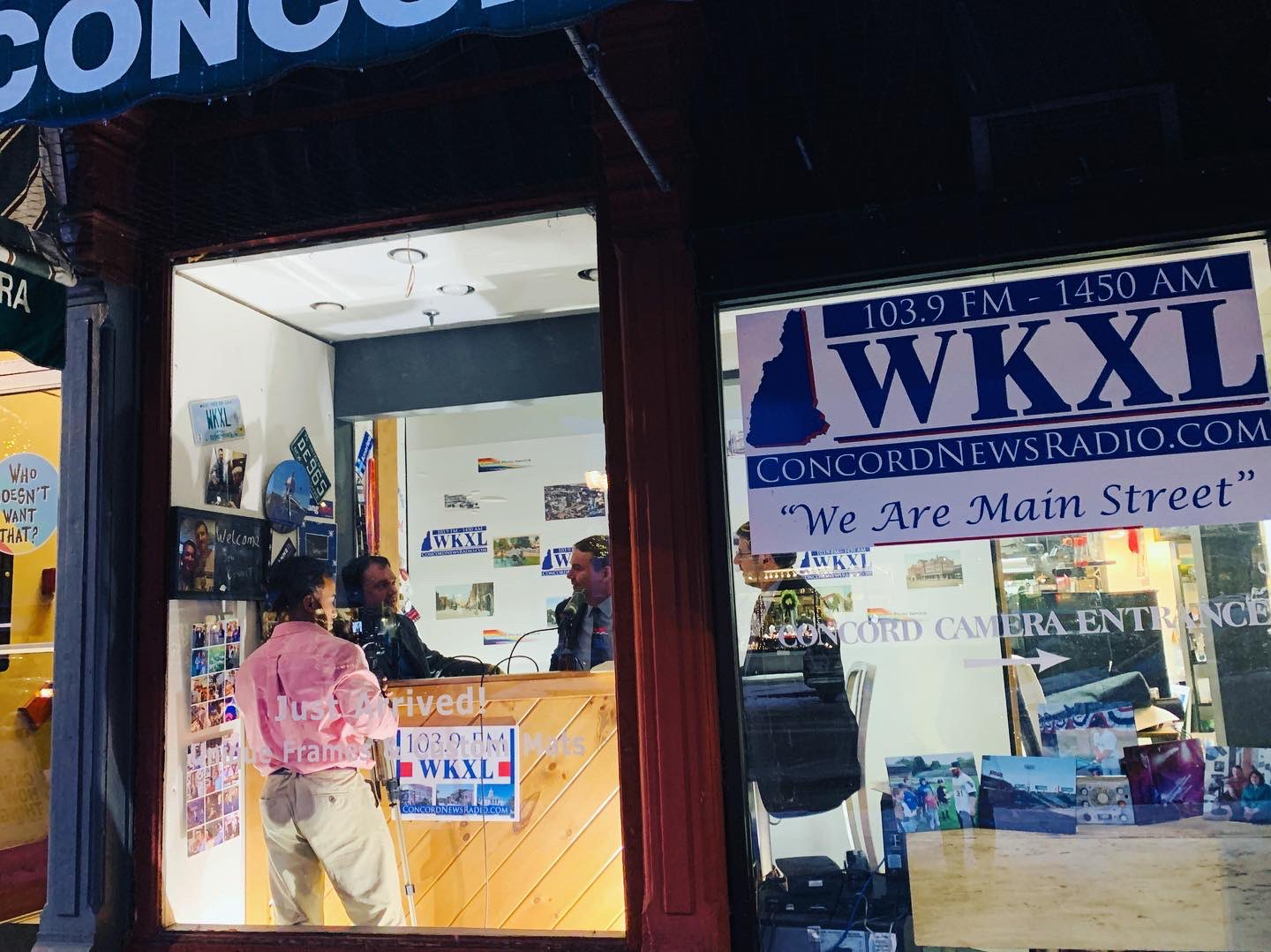 Recording a radio interview with @wkxlnhchris & @AARPNH, looking out on this snowy evening in Concord, NH. We’re talking about issues that affect middle-class families & how we can actually make progress on raising incomes, lowering drug prices & making education more affordable.